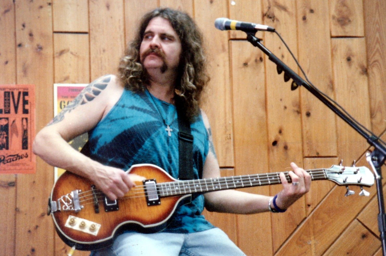 Taken at Peaches Records, Sunrise Blvd., Fort Lauderdale, FL RIP!